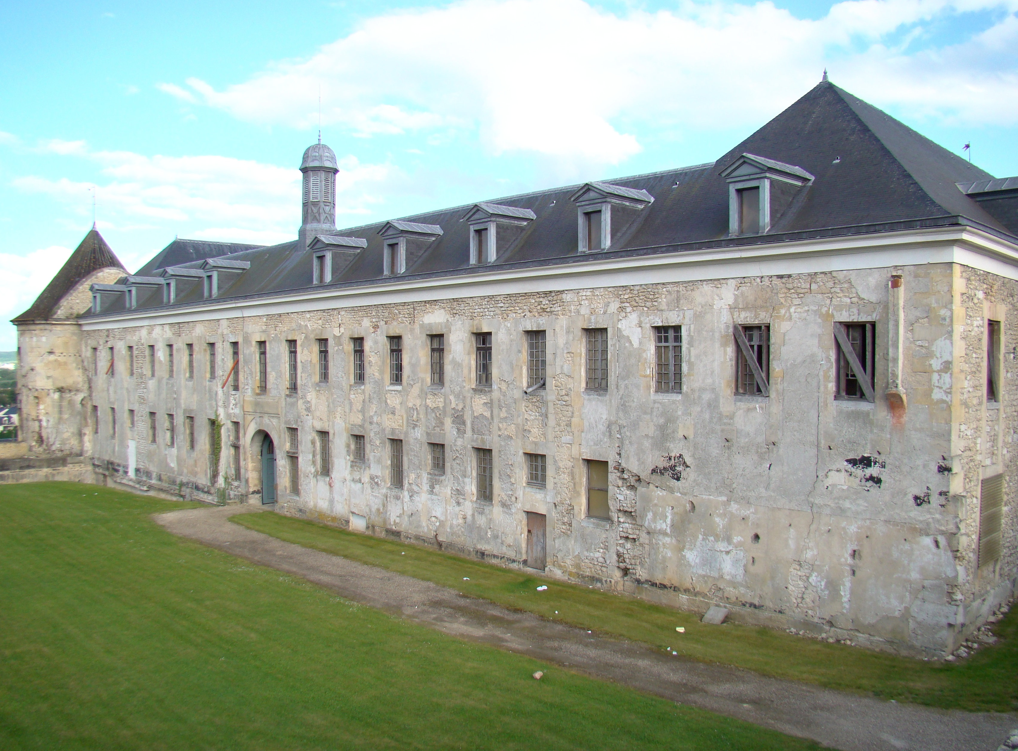 Gaillon, part of the Renaissance castle.